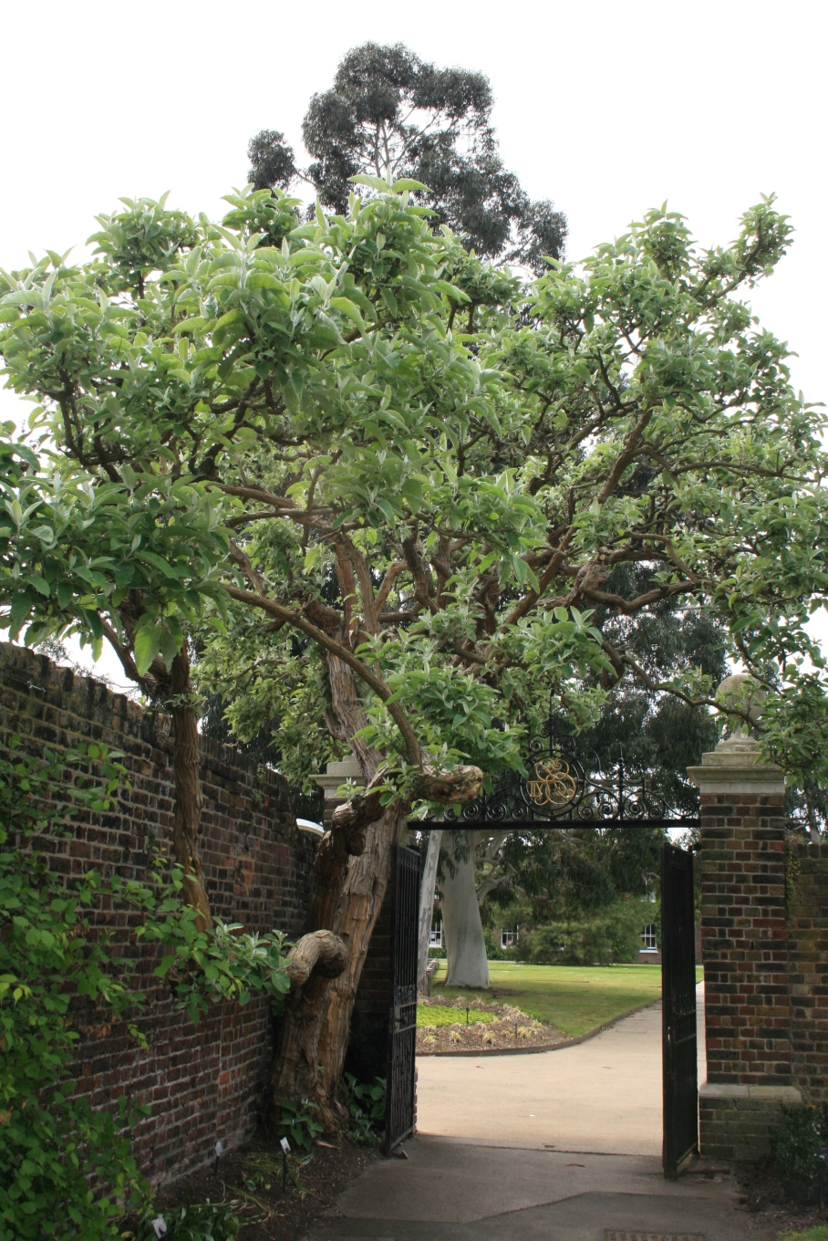 Buddleja crispa: Habitus. Kew Gardens, London.